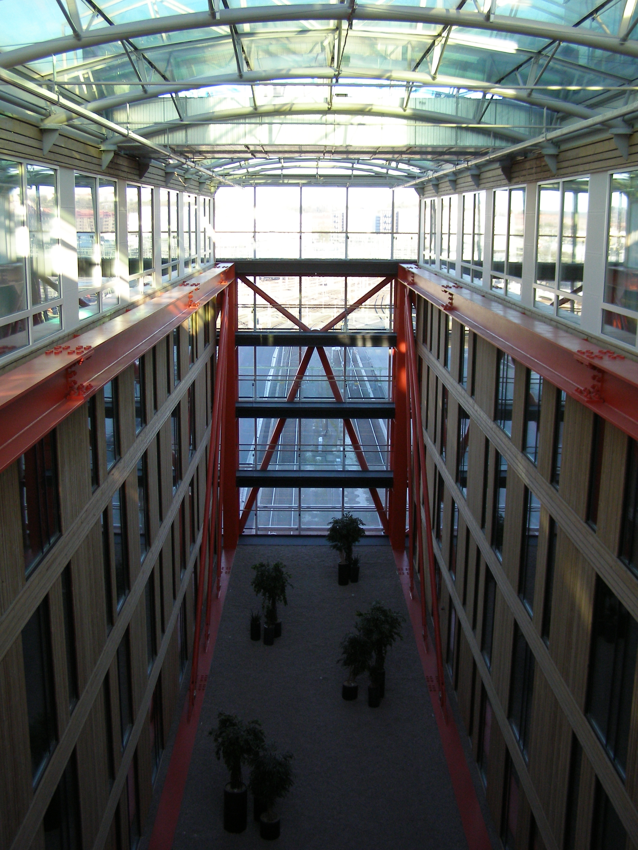 Gothenburg - interior of First Hotel G